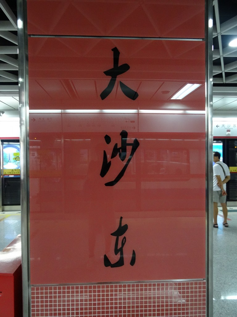 大沙东站柱上啲字